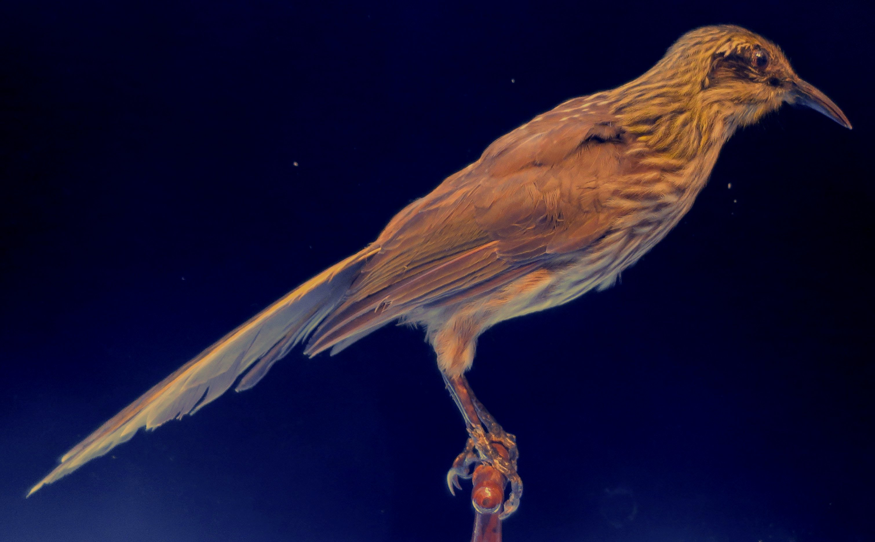 Chaetoptila angustipluma, Bishop Museum, Honolulu